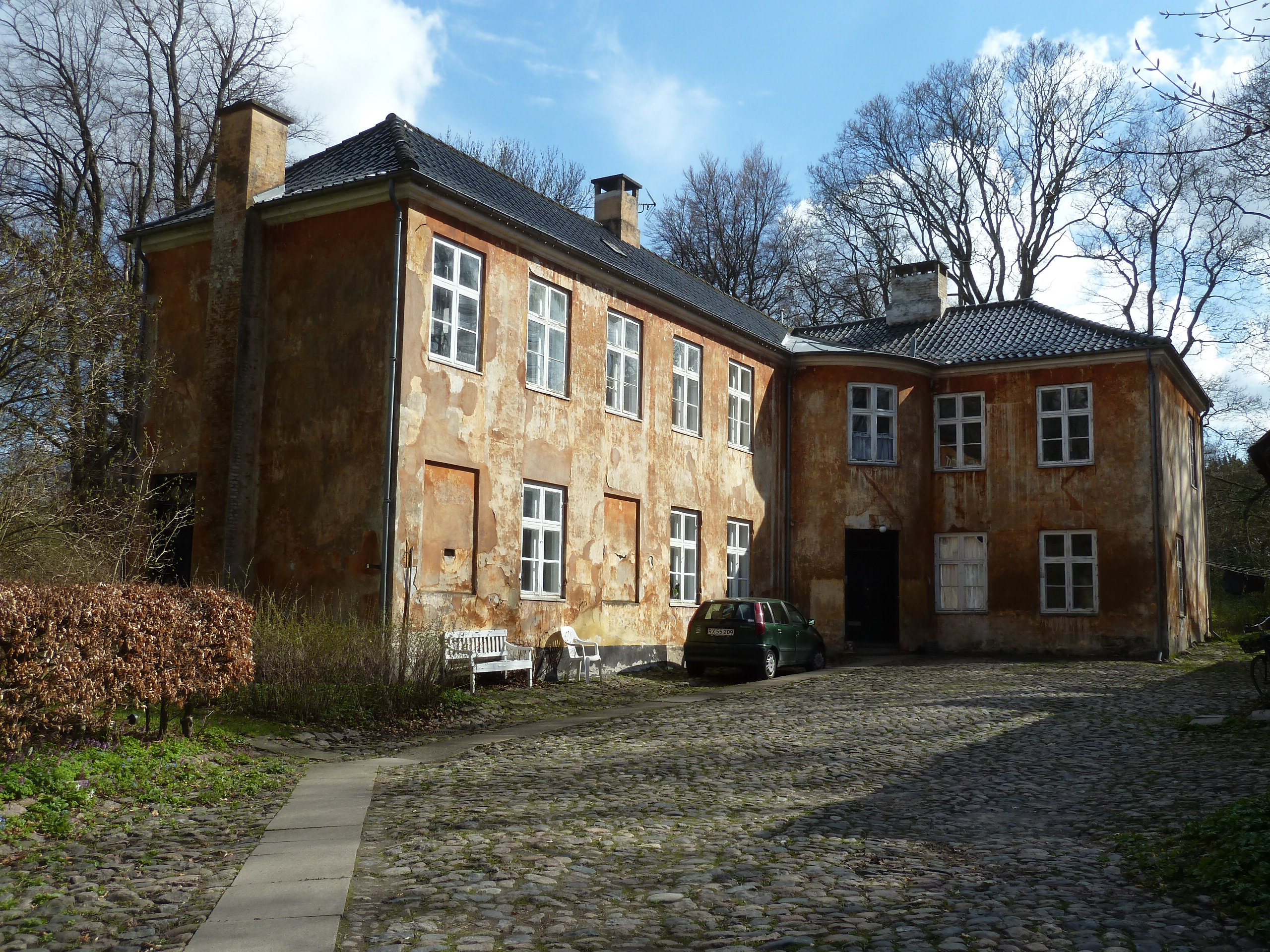 Fasangården in Frederiksberg Gardens in Copenhagen, Denmark